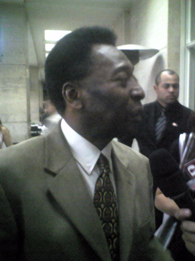 Pele at birthday party of Vanderlei Luxemburgo